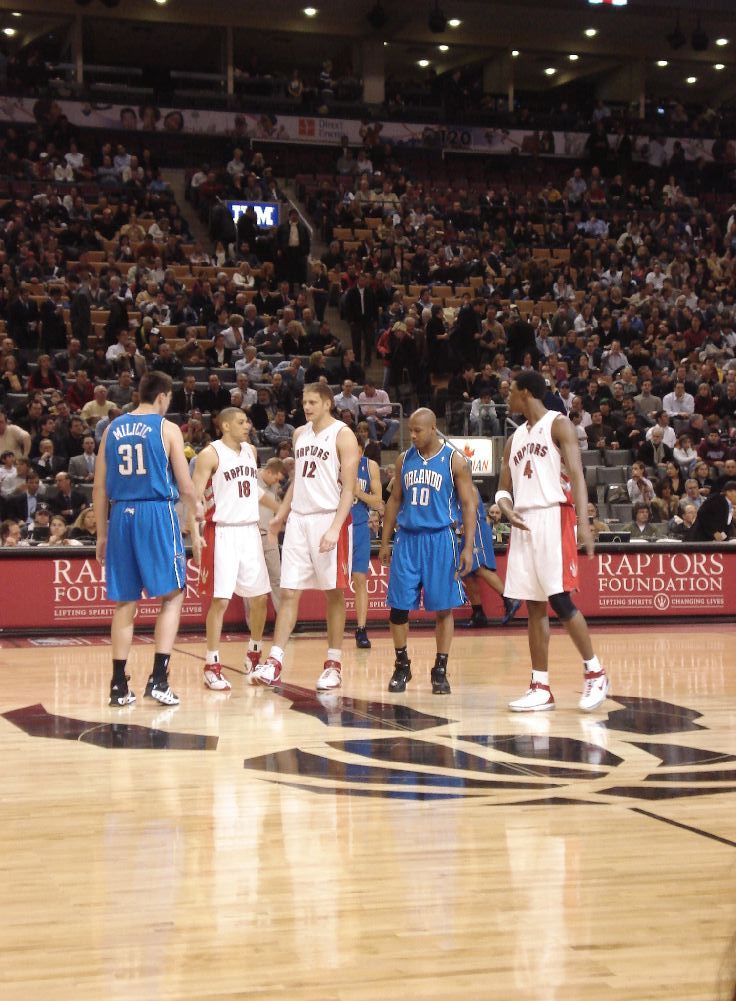 Anthony Parker of Toronto Raptors